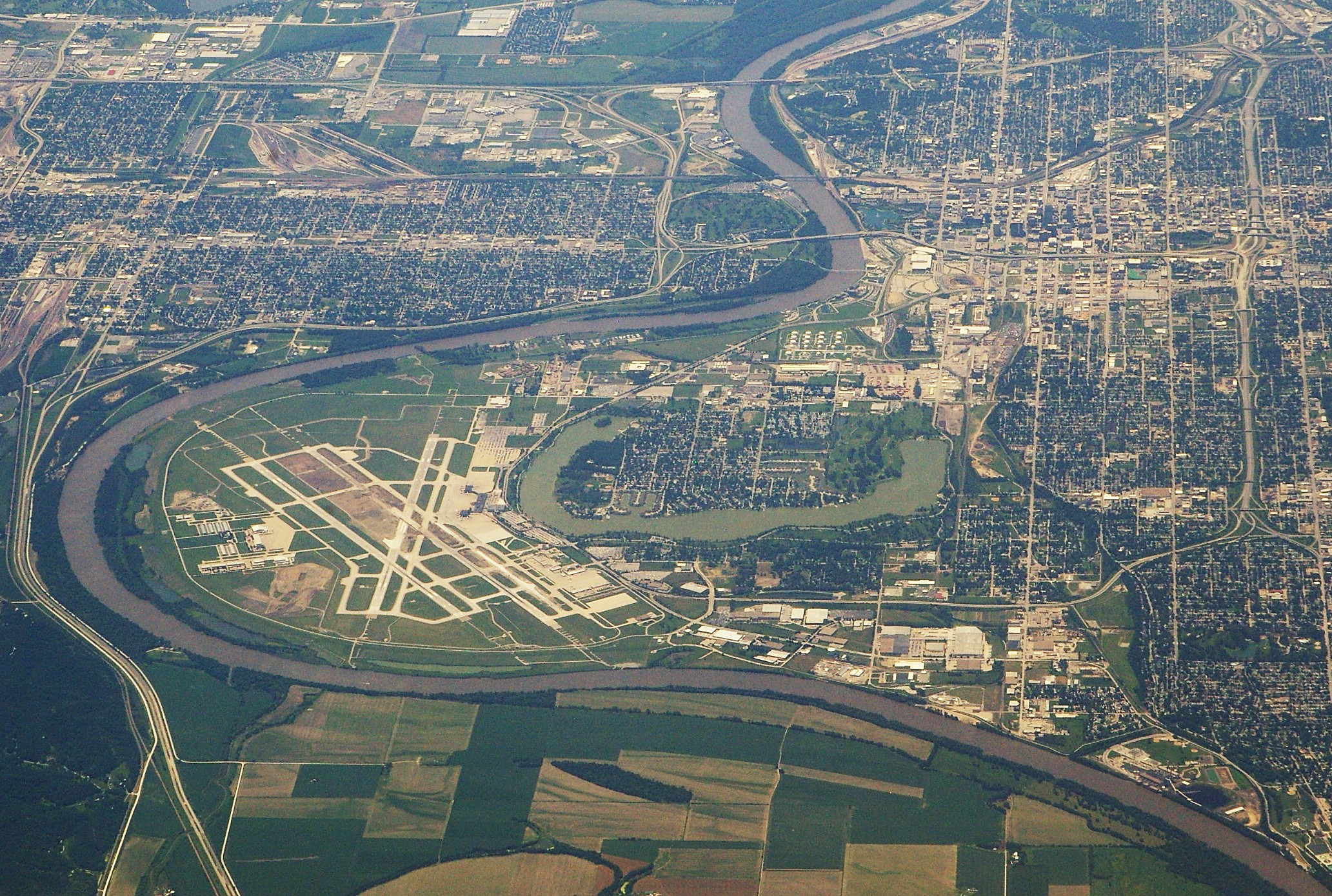 City of Omaha and Epply Airfield, with the Missouri River forming the border between Iowa (on the left) and Nebraska (on the right). Council Bluffs, IA on the upper left corner. Taken from an altitude of 36,000 feet, looking south.